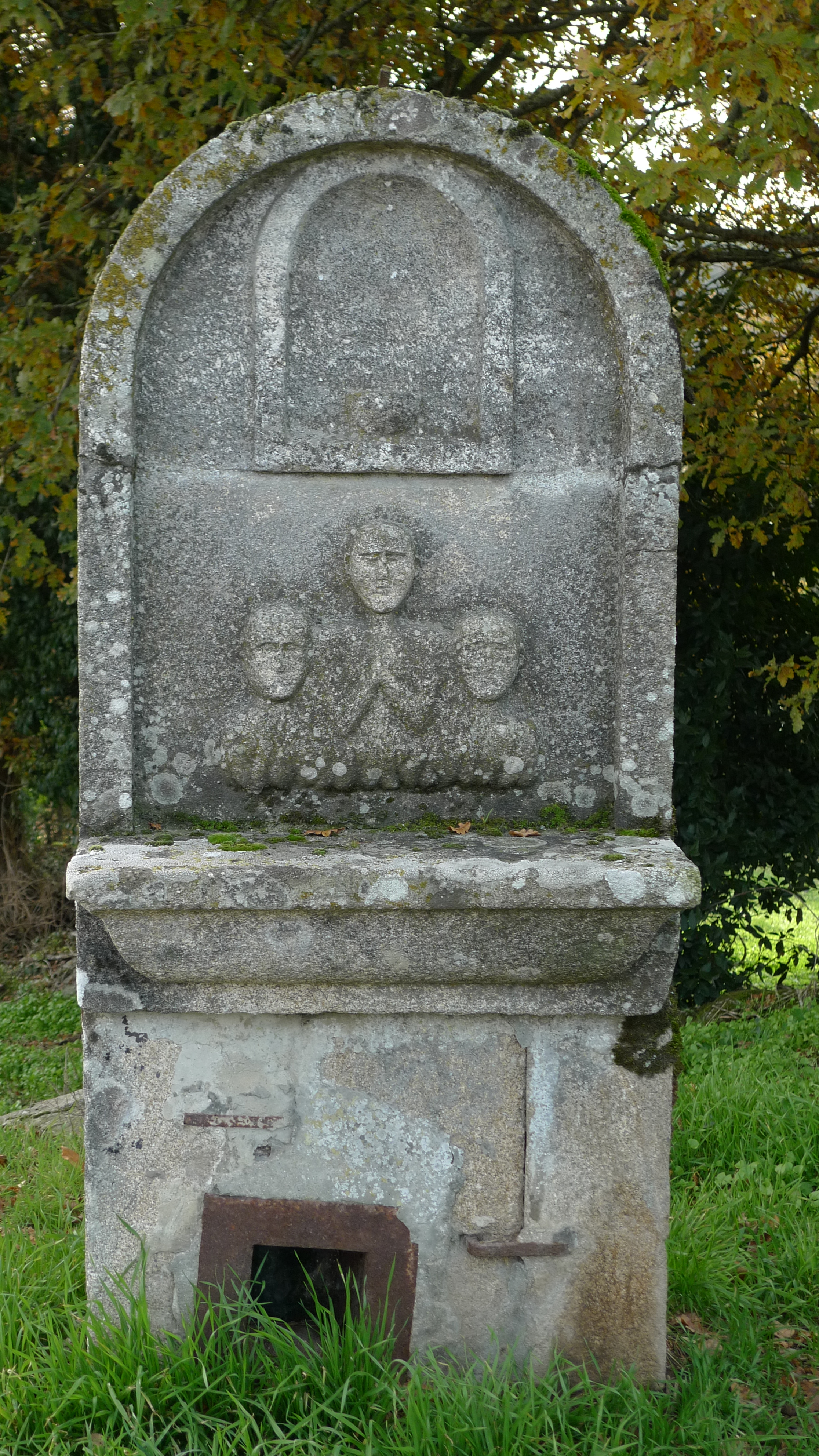 Wayside shrine in O Peto, San Xurxo de Asma - Chantada (Lugo)